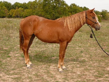 Kool Little Leo, registered American Quarter Horse mare, at age 2 in 2006.